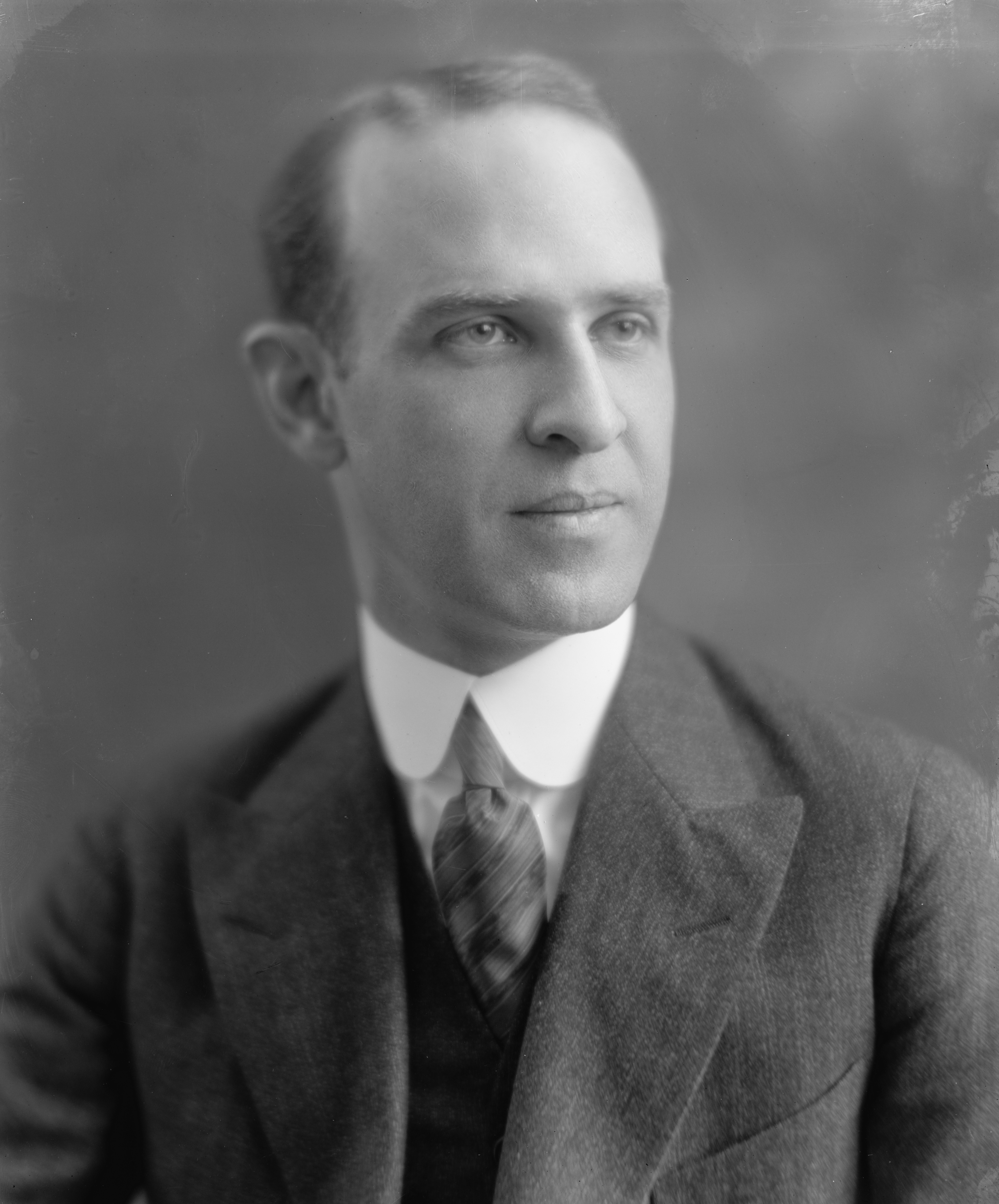 Title: HILL, LISTER. HONORABLE Abstract/medium: 1 negative : glass ; 8 x 10 in. or smaller